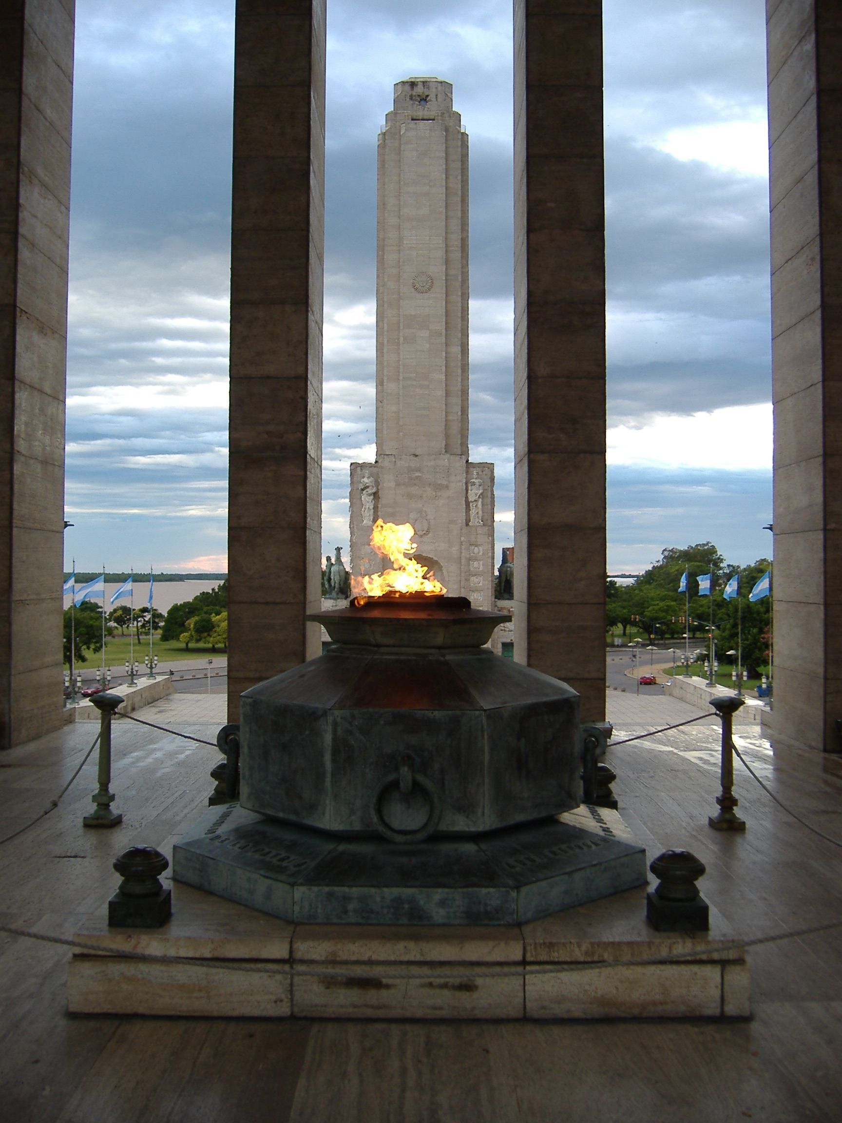 The National Flag Memorial (Monumento Nacional a la Bandera) in Rosario, Argentina, near the banks of the Paraná River. I, Pablo D. Flores, took this picture on 28 February 2006.